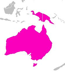 Short-beaked Echidnas (Tachyglossus aculeatus) distribution